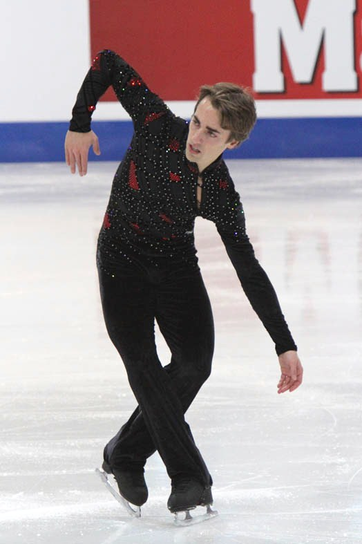 Paolo Bacchini at the 2011 European Figure Skating Championships.